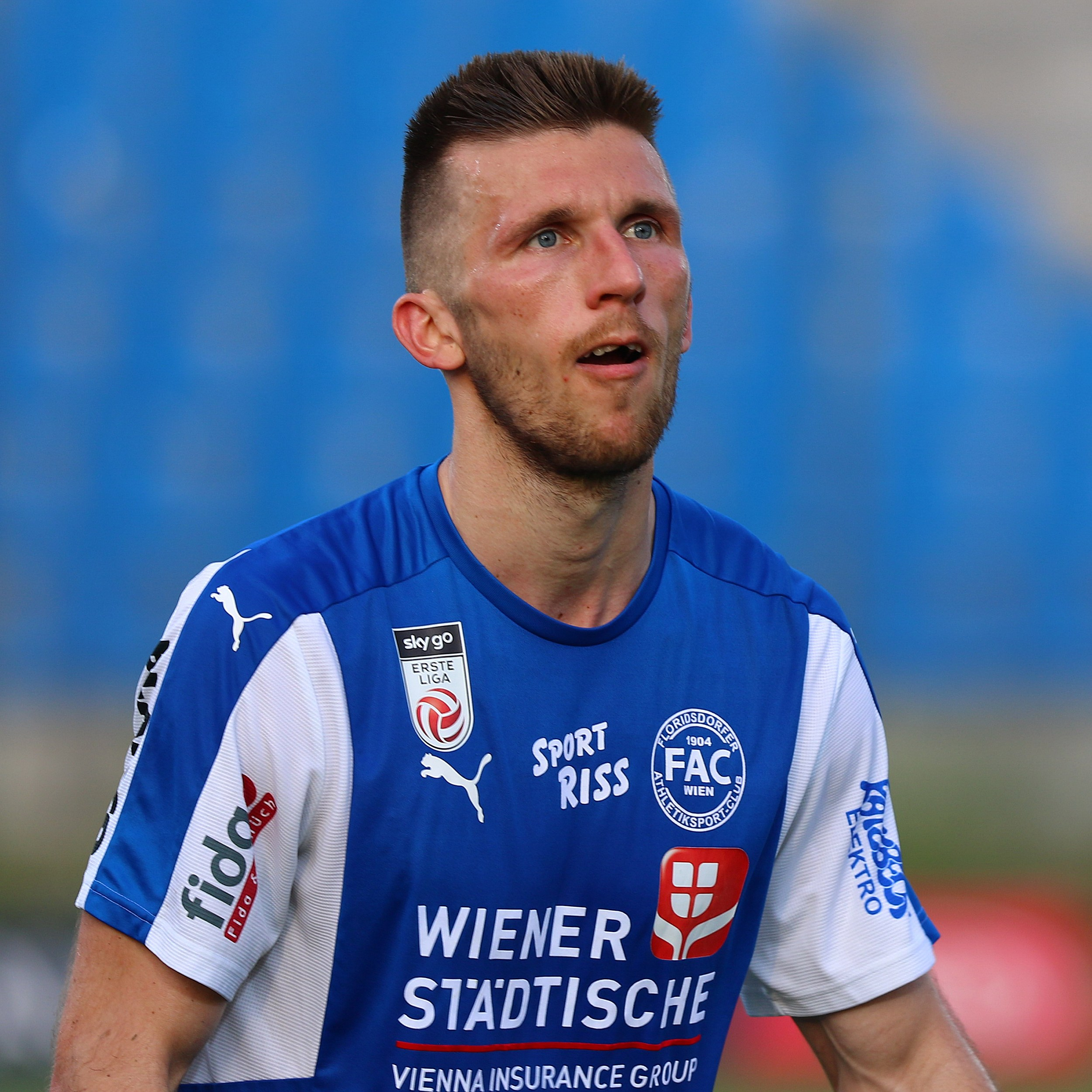 Football-championship Erste Liga 2017–18 - SC Wiener Neustadt (white shirts) vs. Floridsdorfer AC (blue shirts) 1-0. – The photo shows Christian Bubalović